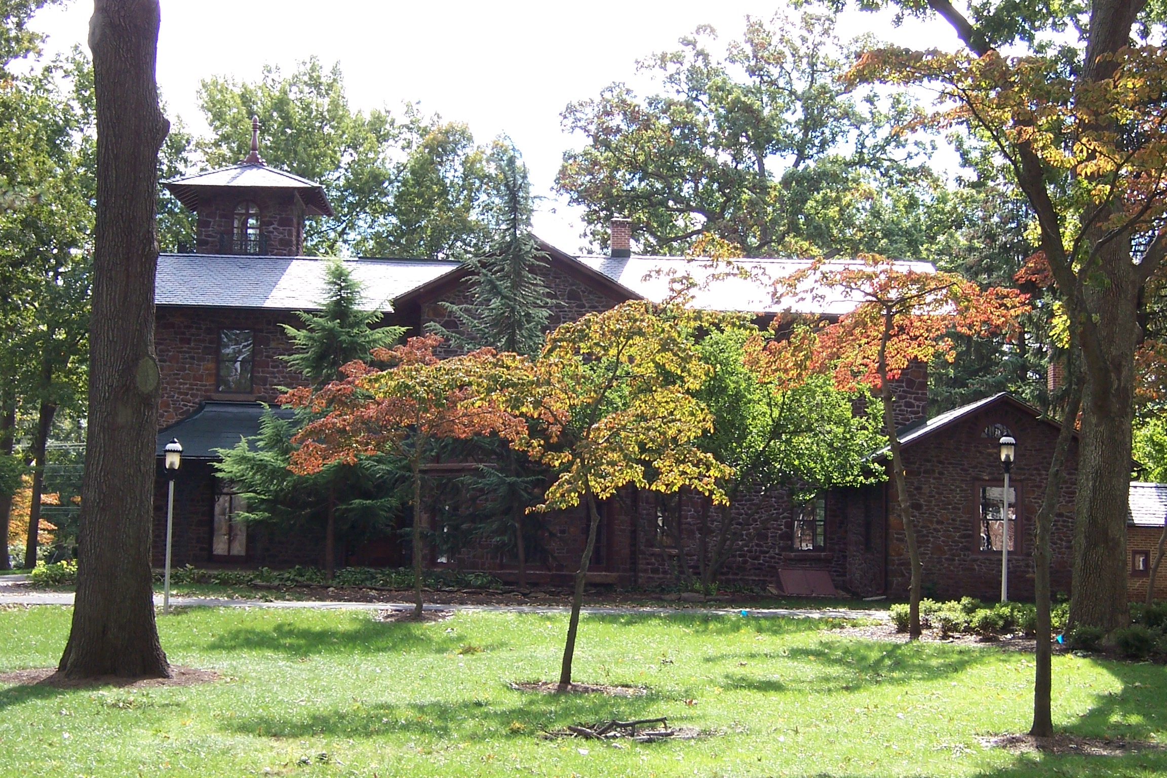 Rowan University, Hollybush Mansion. Taken by me, 16 October 2005.